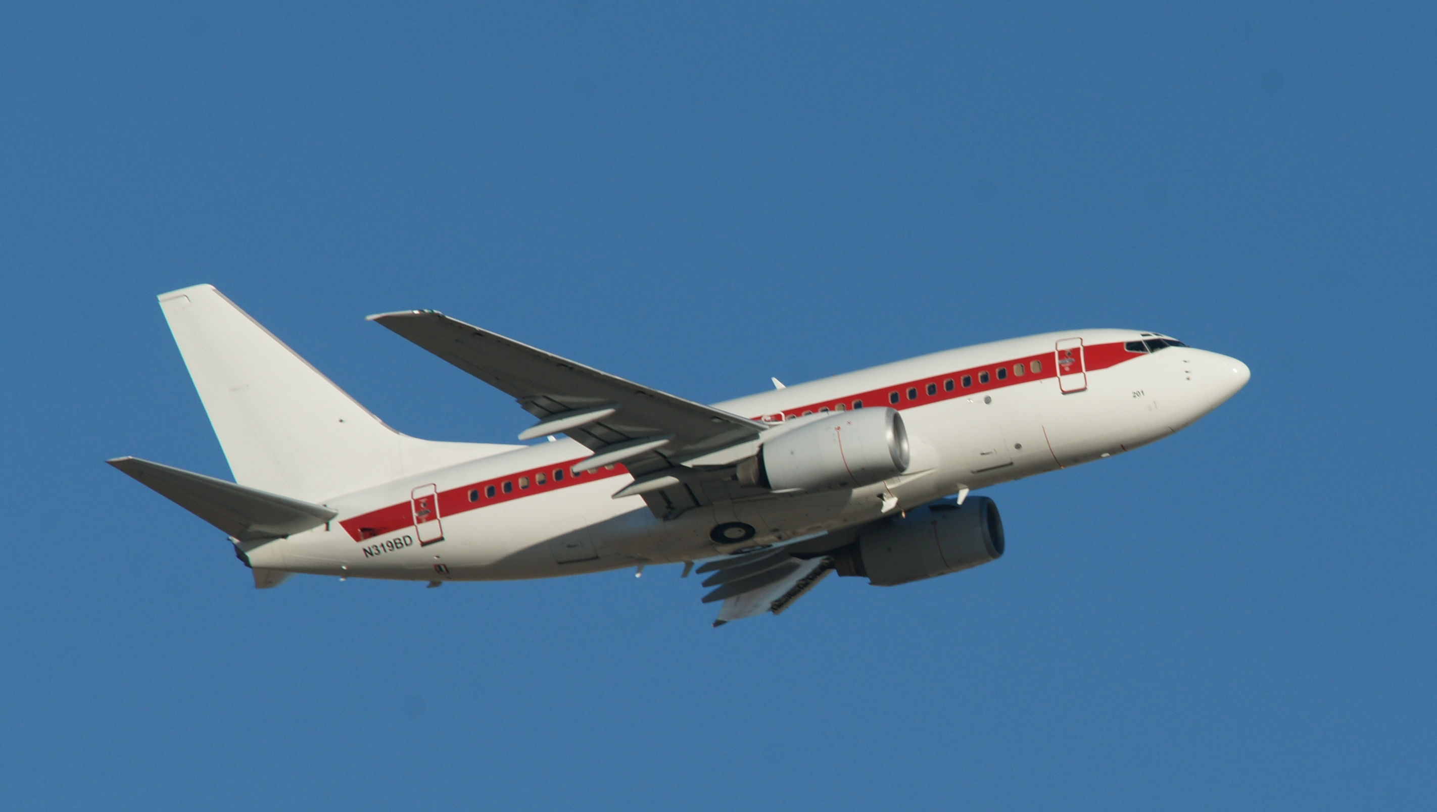 Boeing 737-600 (N319BD) of 'Janet' airline. Improved framing. Original description as follows: "This is a photo of a "Janet" taking off from an undisclosed location in California."